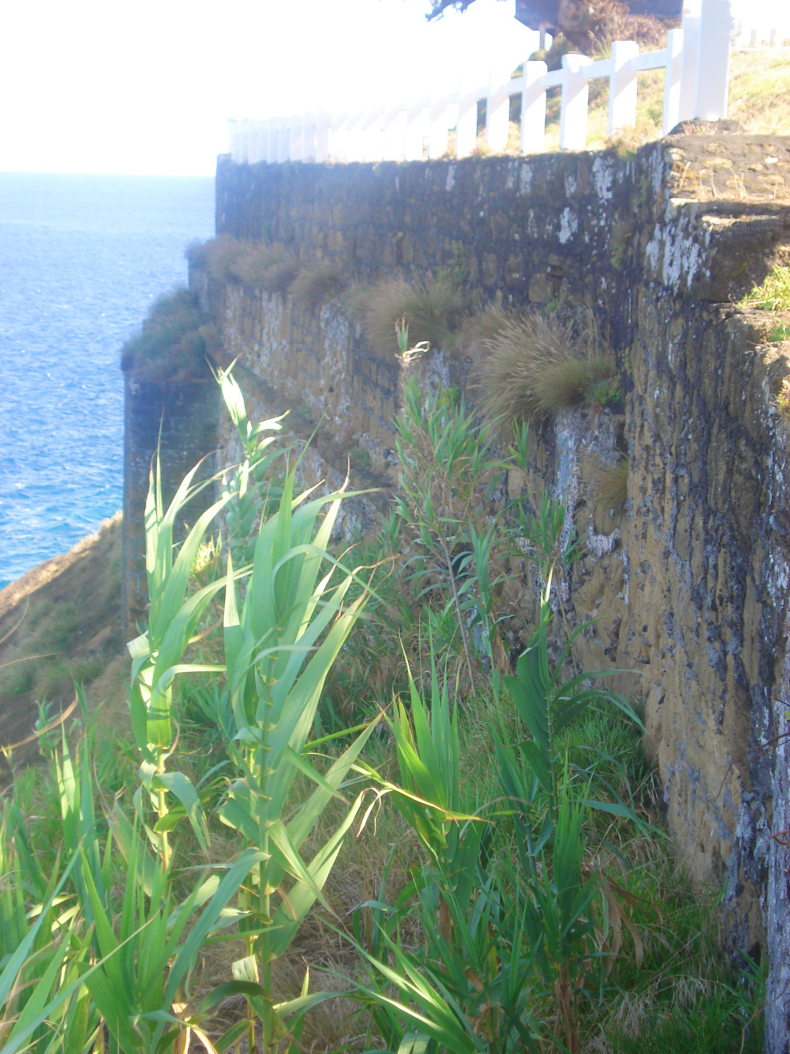 The underbrush alongside the remaining walls of the Fort of Greta, civil parish of Angústias, municipality of Horta (Azores), Portugal Unknown